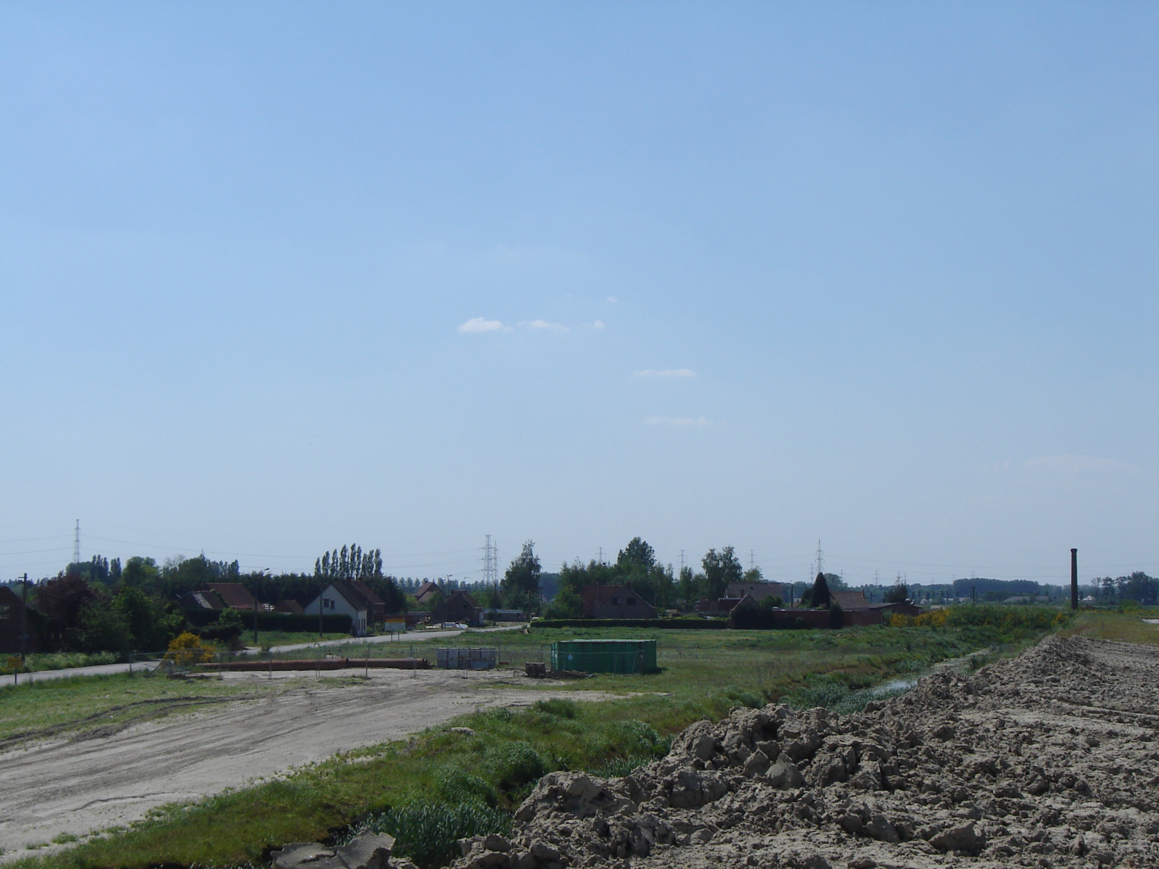 Zandeken hamlet in Evergem. Disappears in 2008 to make room for the expansion of the port of Gent (Kluizendok dock). Evergem, East Flanders, Belgium